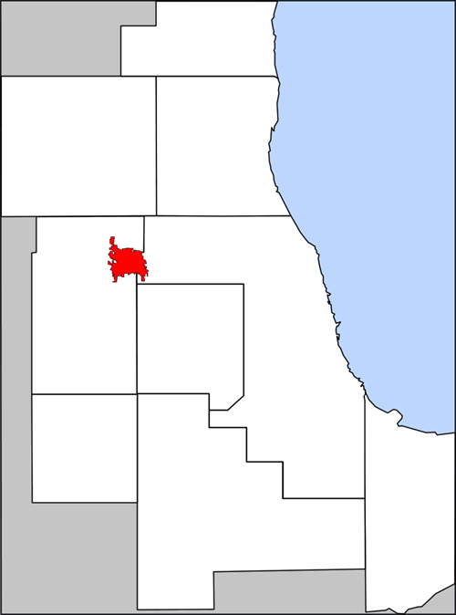 Location of Elgin in Chicagoland. Created with Macromedia Fireworks 4 PNG-8 Websnap adaptive color palette 256 colors Category:Illinois city locator maps